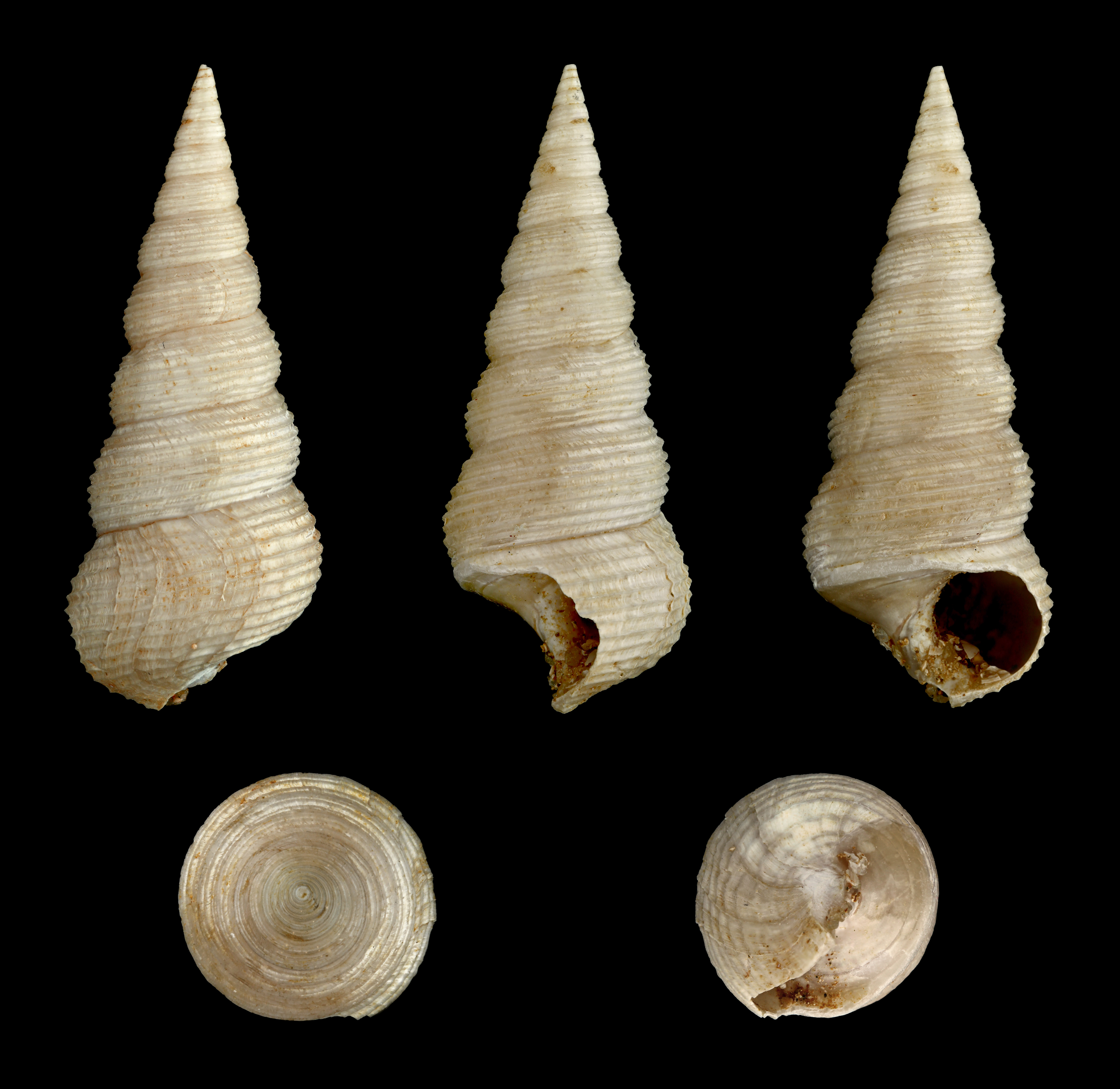 Length 3.8 cm; Lutetian, Eocene; Damery, Dept.Marne, France; Shell of own collection, therefore not geocoded. Dorsal, lateral (right side), ventral, back, and front view.